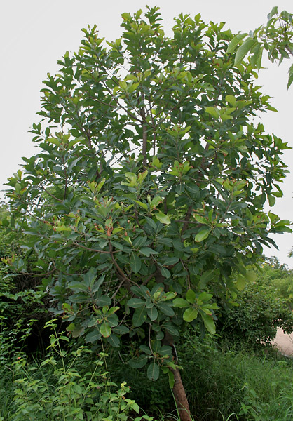 Honey tree, Butter tree, Madhuca, moha, mohua, madhuca, illuppai, kuligam, madurgam, mavagam, nattiluppai, tittinam, mahwa, mahua, mowa, moa or mowrah Madhuca longifolia var. latifolia in Hyderabad , India.